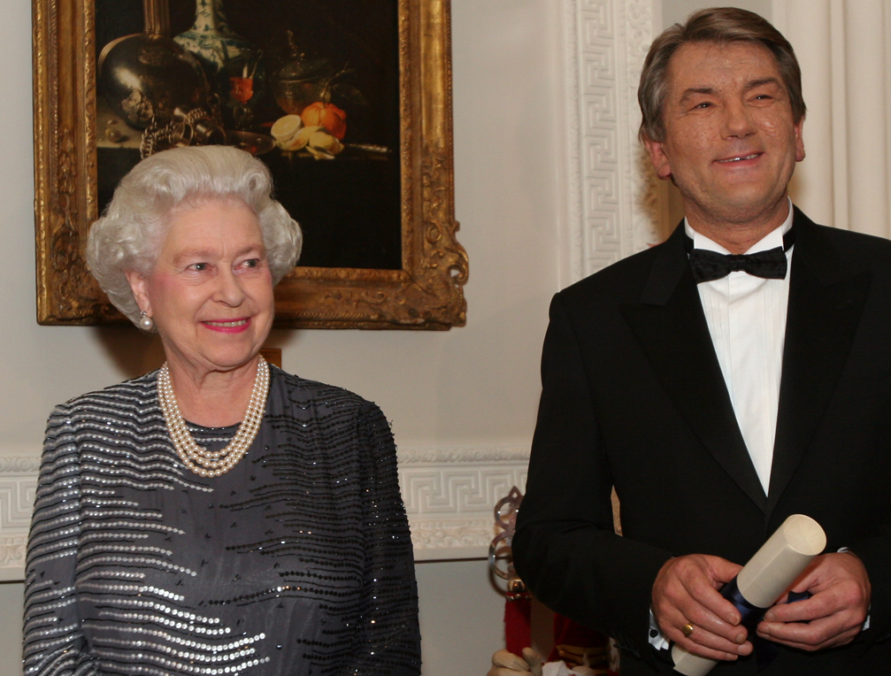 Chatham House Prize 2005